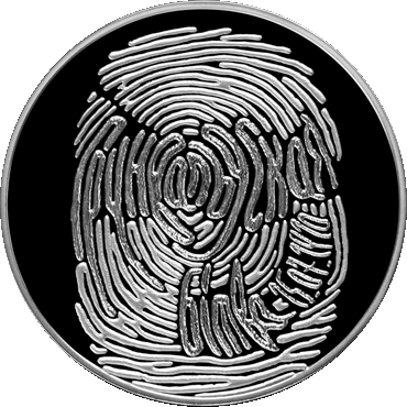 "The Battle of Grunwald. The 600th Anniversary" Silver commemorative coins, denomination: 20 rubles, Belarus